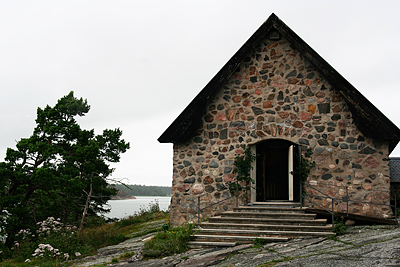 Capella Ecumenica Sanctae Annae in scouplis, chapel in the archipelago of S:t Anna, in the province of Östergötland.